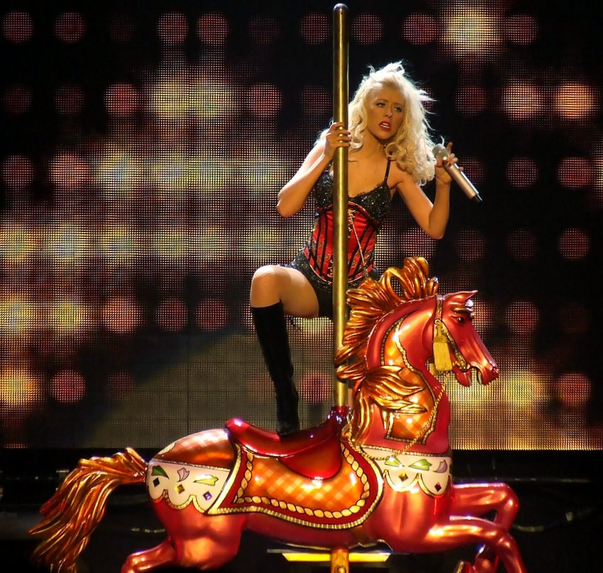 Christina Aguilera performing "Dirrty" at the Point Theatre in Dublin, Ireland